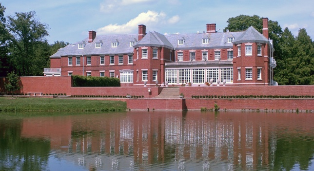 View of the Allerton House across its reflecting pond, meant to recreate the Thames river's reflection of Ham House.